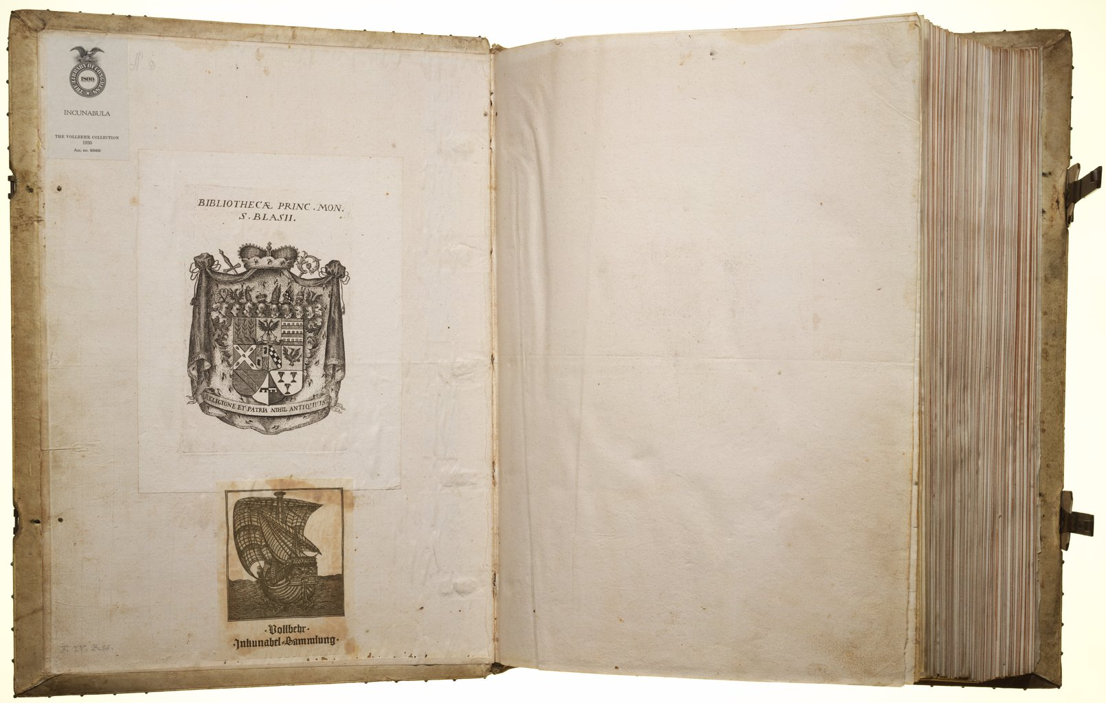 The Gutenberg Bible is the first great book printed in Western Europe from movable metal type. It is a monument that marks a turning point in the art of bookmaking and in the transition from the Middle Ages to the modern world. The Bible was completed in Mainz, Germany, probably in late 1455. Johann Gutenberg, who lived from about 1397 to 1468, is generally credited with inventing the process of making uniform and interchangeable metal type and developing the materials and methods to make printing possible. This Bible, with its noble Gothic type richly impressed on the page, is recognized as a masterpiece of fine printing and craftsmanship. The text is the Latin translation known as the Vulgate, made by Saint Jerome in the fourth century. The Bible is printed throughout in double columns, with 42 lines to a page for the most part. The capital letters and headings are ornamented by hand in color. The three volumes are in white pigskin bindings, which date from the 16th century. The Library of Congress copy is printed entirely on vellum, a fine parchment made from animal skin, and is one of only three perfect vellum copies known to exist. The others are at the Bibliothèque nationale de France and the British Library. For nearly five centuries the Bible was in the possession of the Benedictine Order and was kept in the Abbey of Saint Blasius in the Black Forest in Germany and, after 1809, in the Abbey of Saint Paul in Carinthia, Austria. The bookplate of the Abbey of Saint Blasius appears in each volume. Along with other 15th-century books, the Bible was purchased for the Library of Congress from Dr. Otto H. F. Vollbehr by an act of Congress in 1930. Bible; Gutenberg Bible